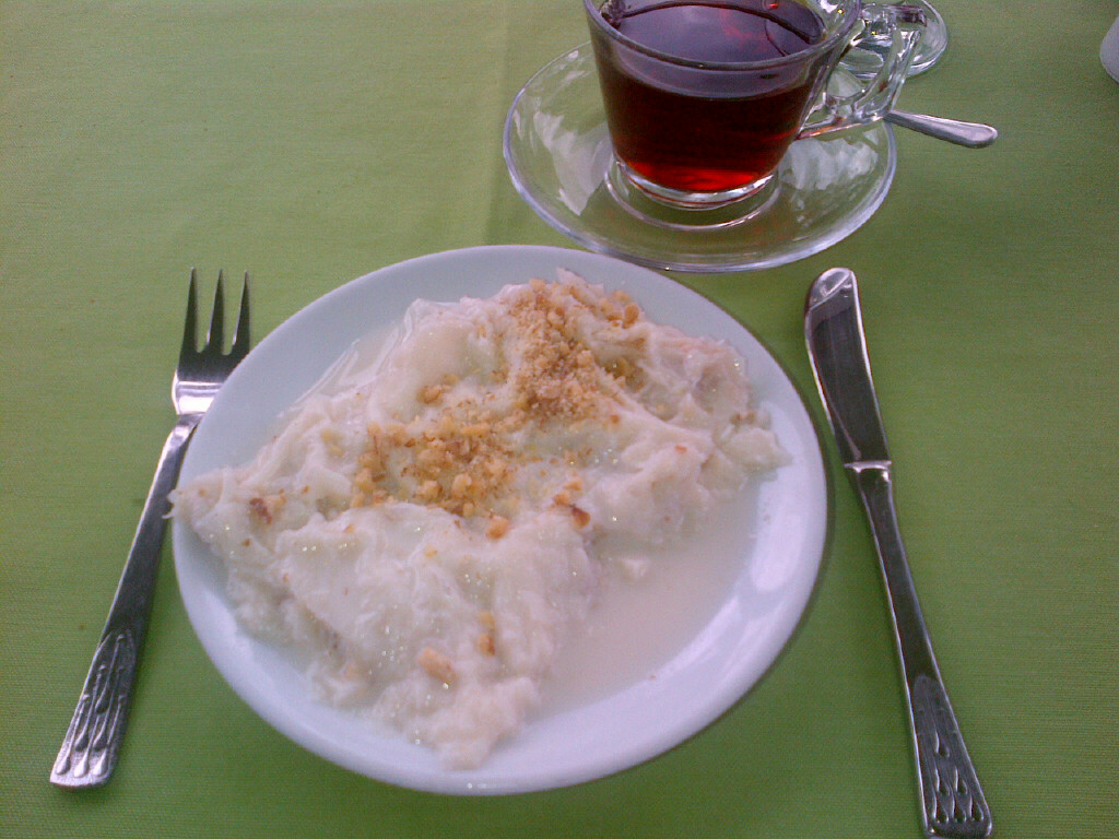 Güllaç from the Turkish cuisine. This is a special dessert, very light, for the Ramazan time. It is accompaied by a cup pf Turkish coffee, in the image.